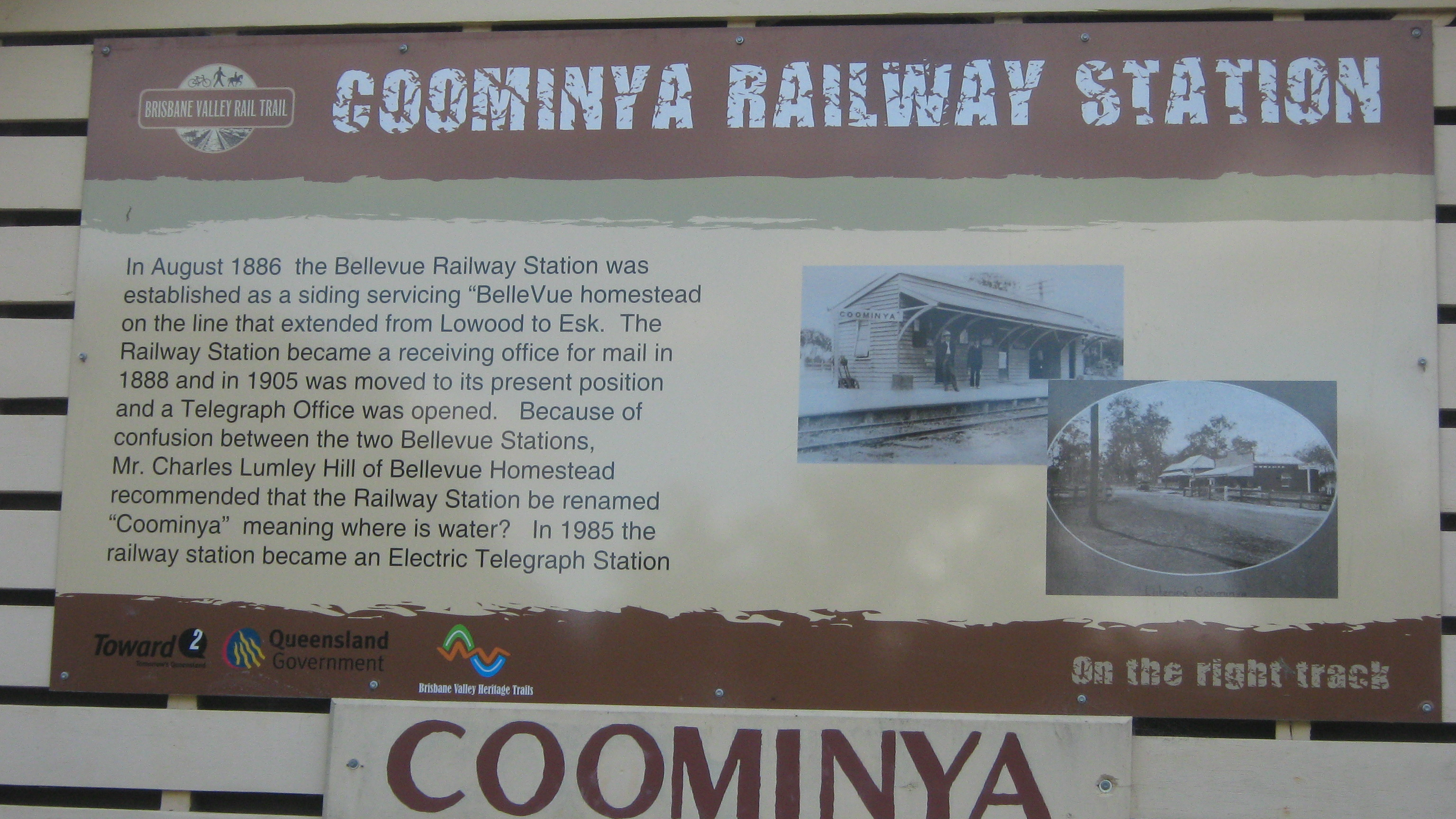 Signs on buildings and ironbark posts tell historic tales around Coominya Village.